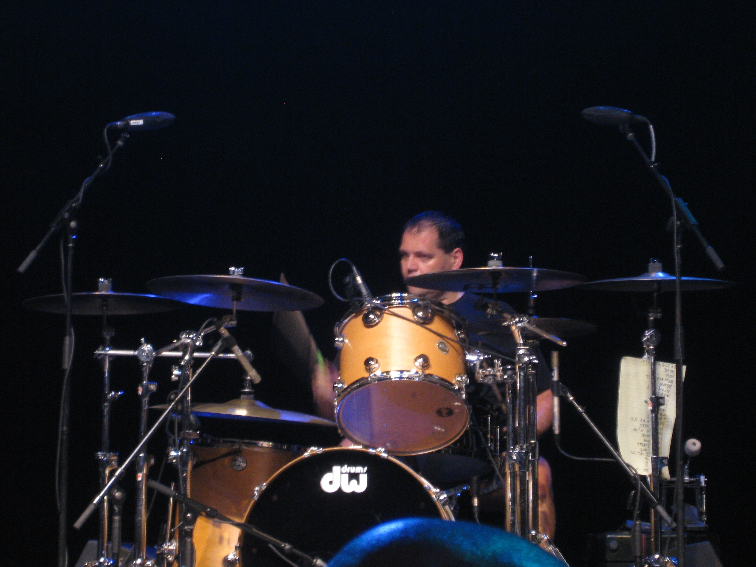 Drummer Bill Stevenson of the Descendents performing December 18, 2011 at the Santa Monica Civic Auditorium in Santa Monica, California as part of the GV30 event.